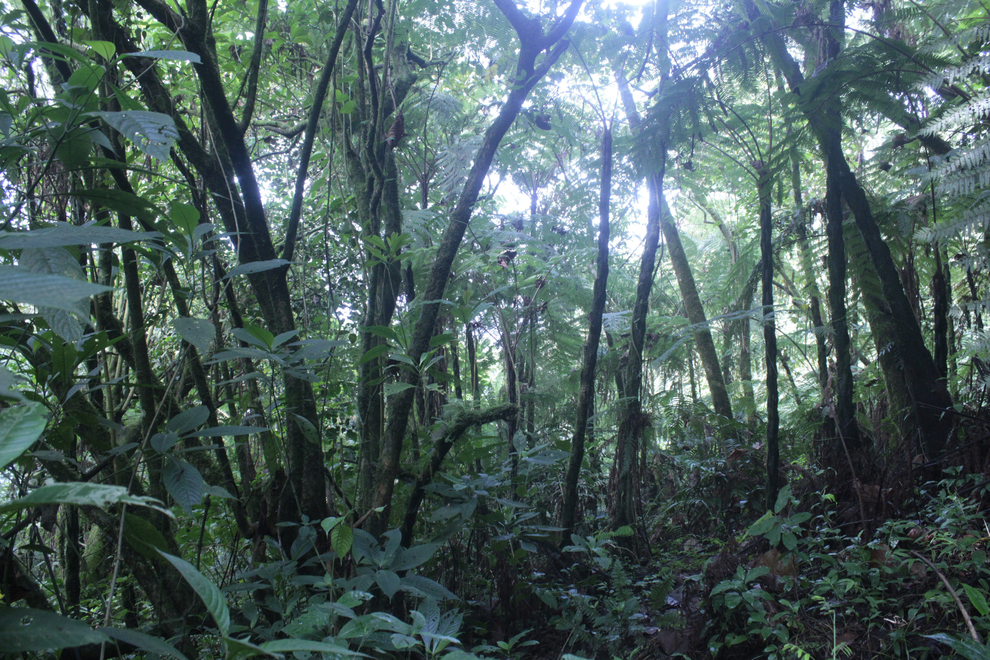 A view of the tropical rain forest on mount Cameroon national reserve park.